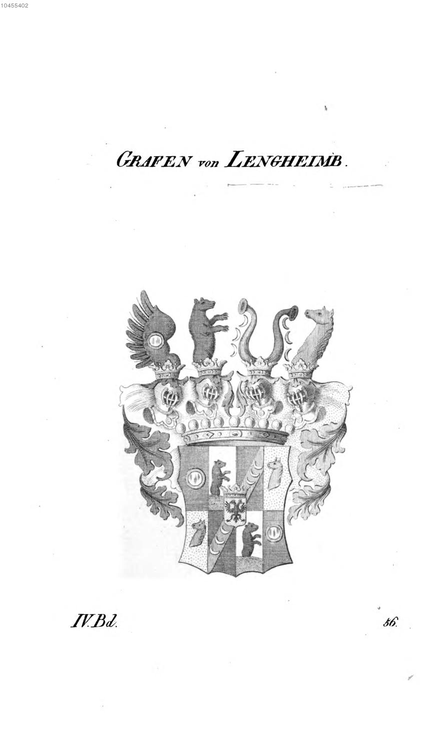 Wappen Lengheimb - Tyroff AT.jpg